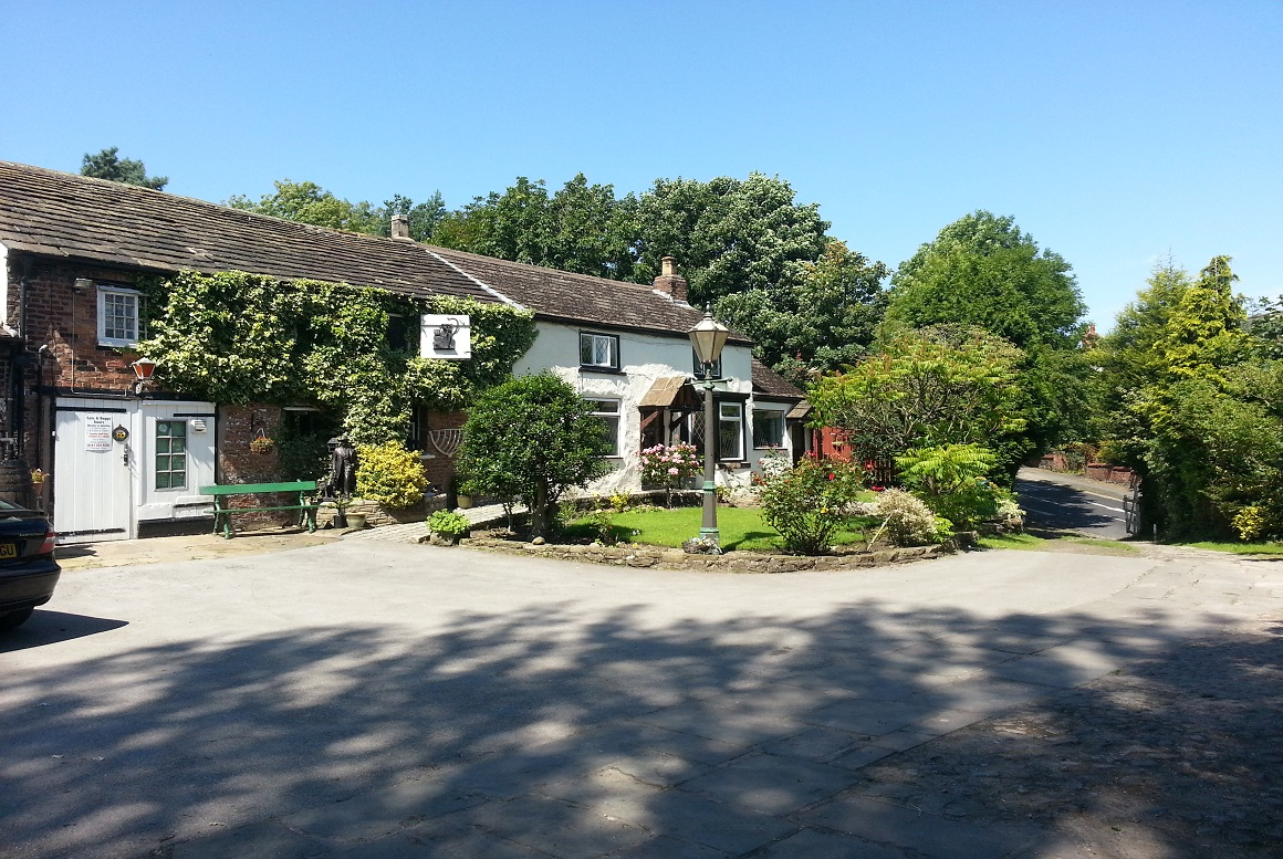 Spring Bank Farm